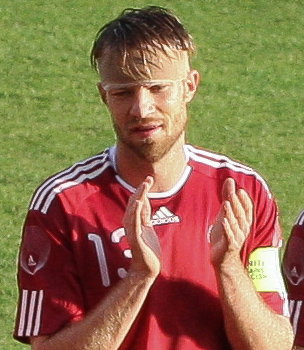 Kaspars Gorkšs, Latvian football player